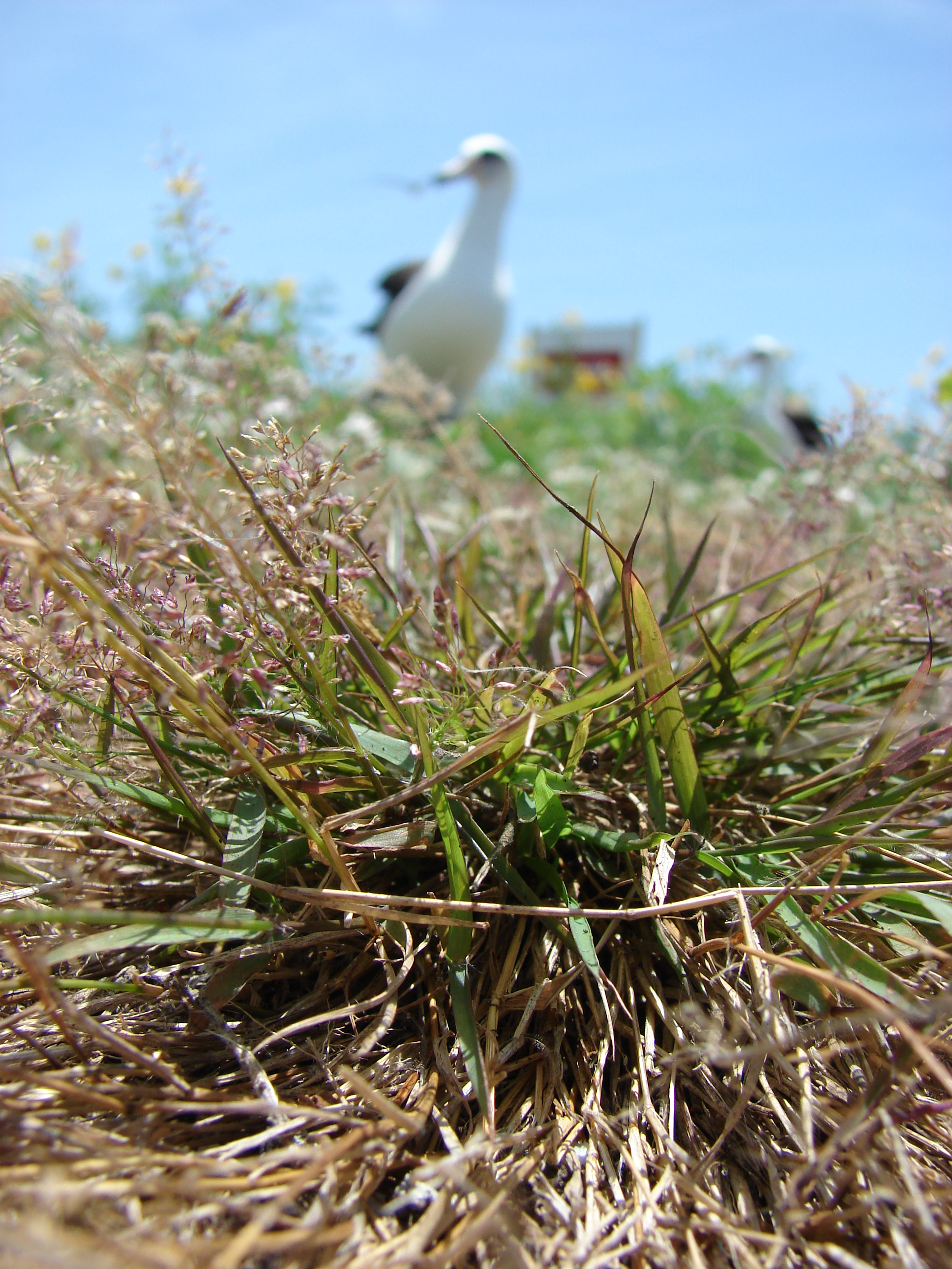 Eragrostis amabilis (habit with Laysan albatross). Location: Midway Atoll, Runway overrun fields Sand Island